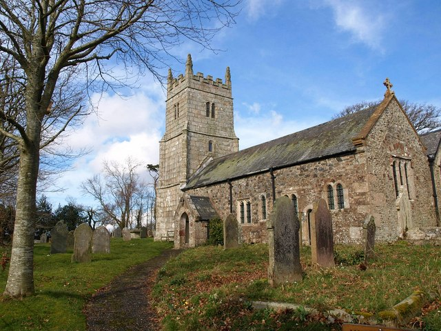 St Andrew's Church, Hittisleigh Another view of from across the churchyard. Cherry & Pevsner call it "a simple church of Dartmoor character". As a major feature on this stretch of the Two Moors Way the church is much frequented by walkers. There is a very thorough architectural description at .